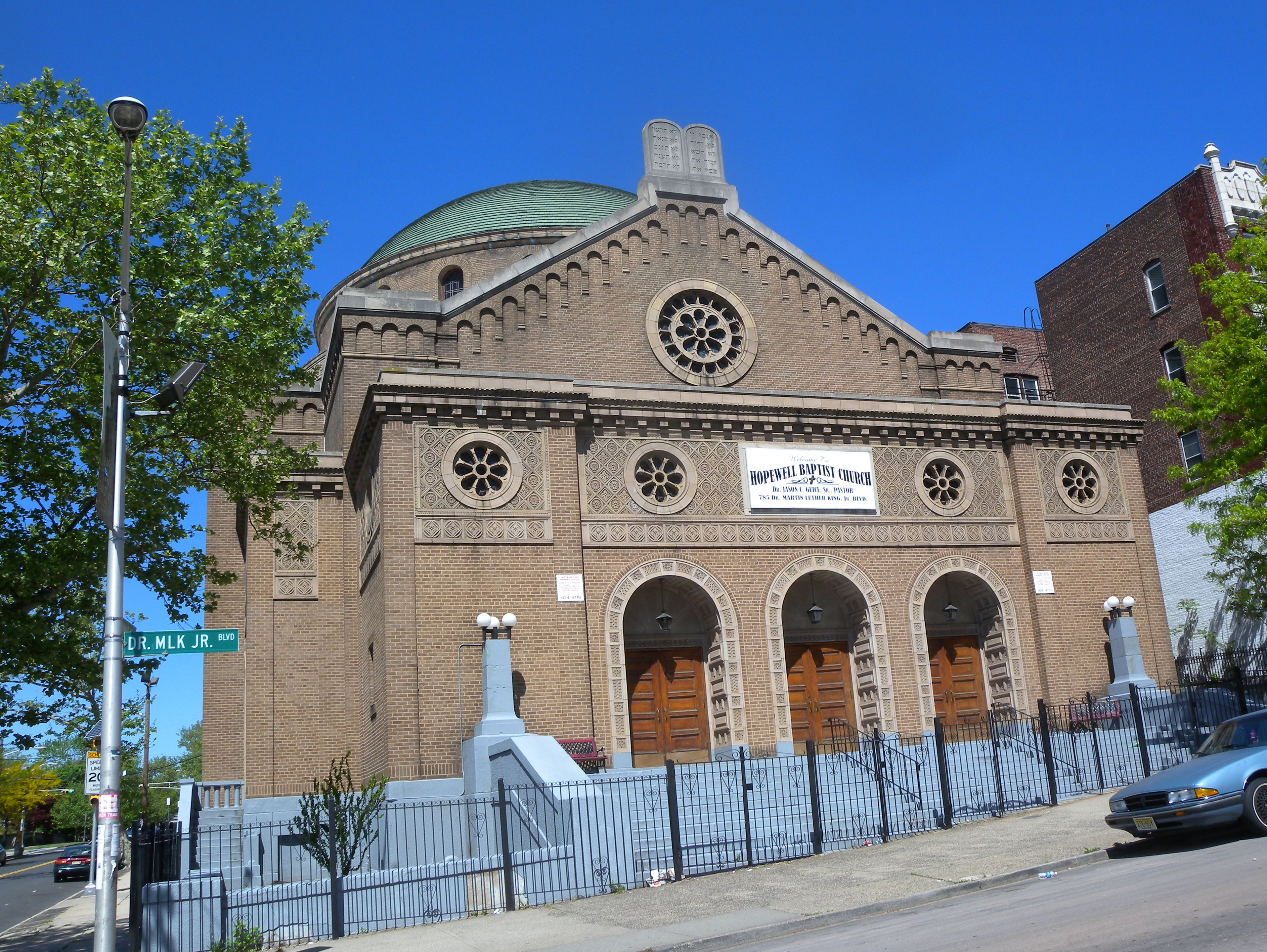 Looking west across the former High Street at the former B'nai Jeshurun, now Hopewell Baptist Church, on a sunny morning. See Newark History.